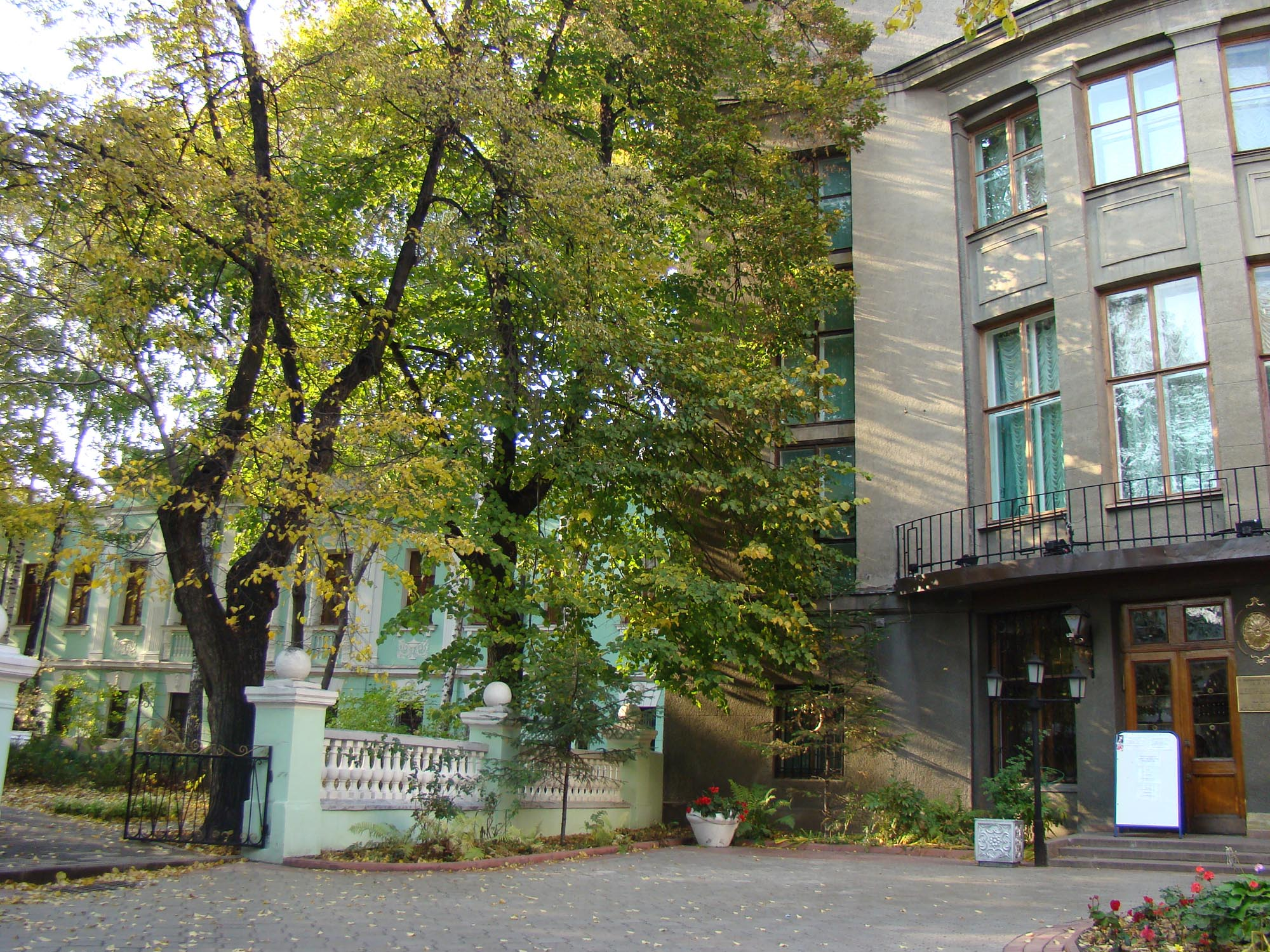 Anatoly Gunst House Konshina Prechistenka 16, Moscow (1908) residence of scientists (2011)